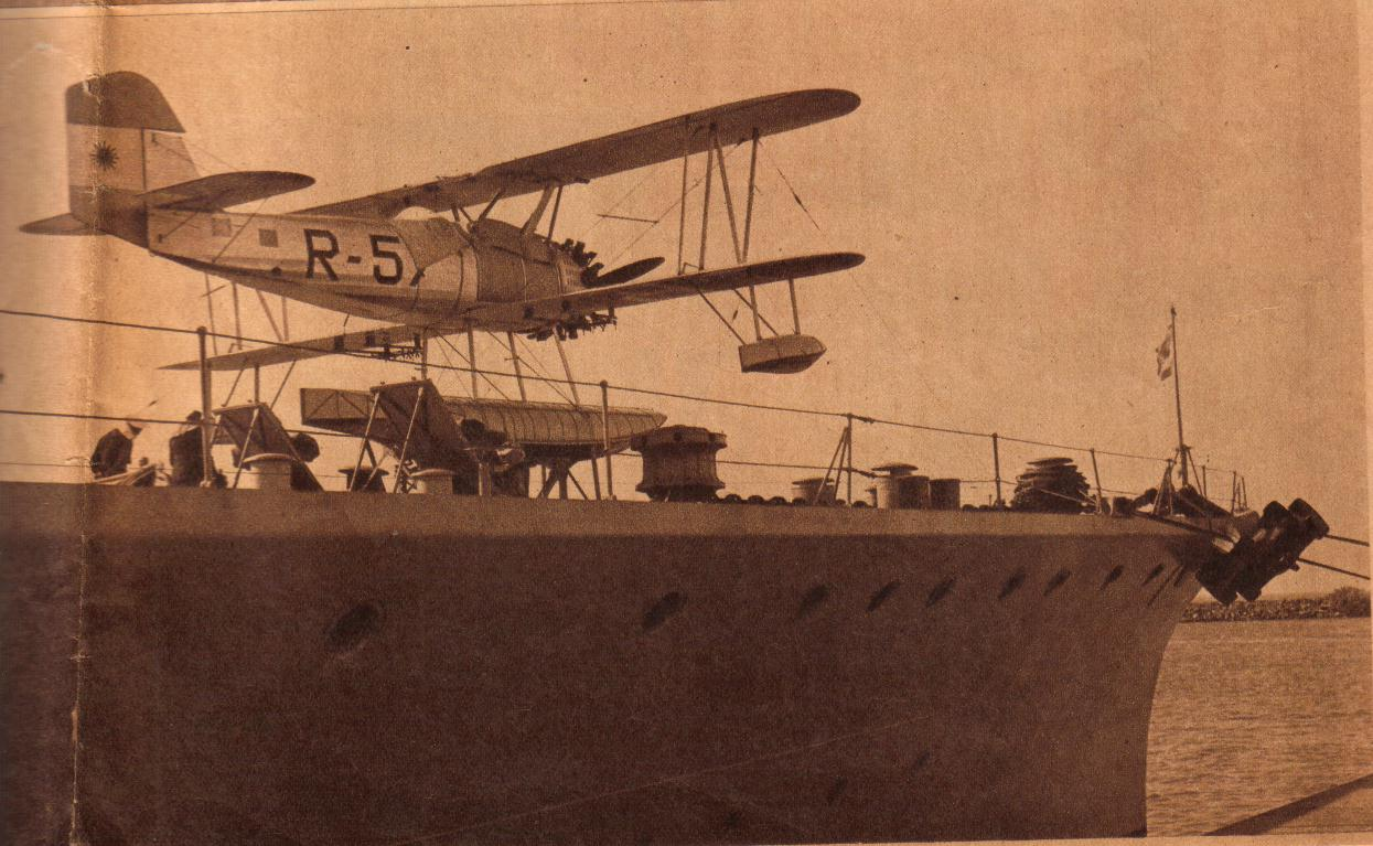 A Vought V-66 / O2U Corsair Scout bomber floatplane, stowed on the ARA Almirante Brown (C-1)